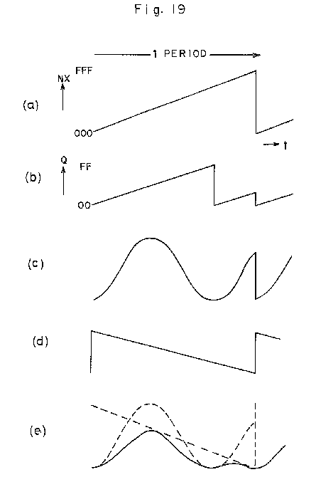 Figure 19 from the 1985 uspto Casio phase distortion synthesis patent application, depicting how to avoid sudden jumps in the variable resonance generation circuit. The source is the US patent application The patent expired in 2005, and it is therefore in the public domain. MX44 10:09, 6 March 2006 (UTC)